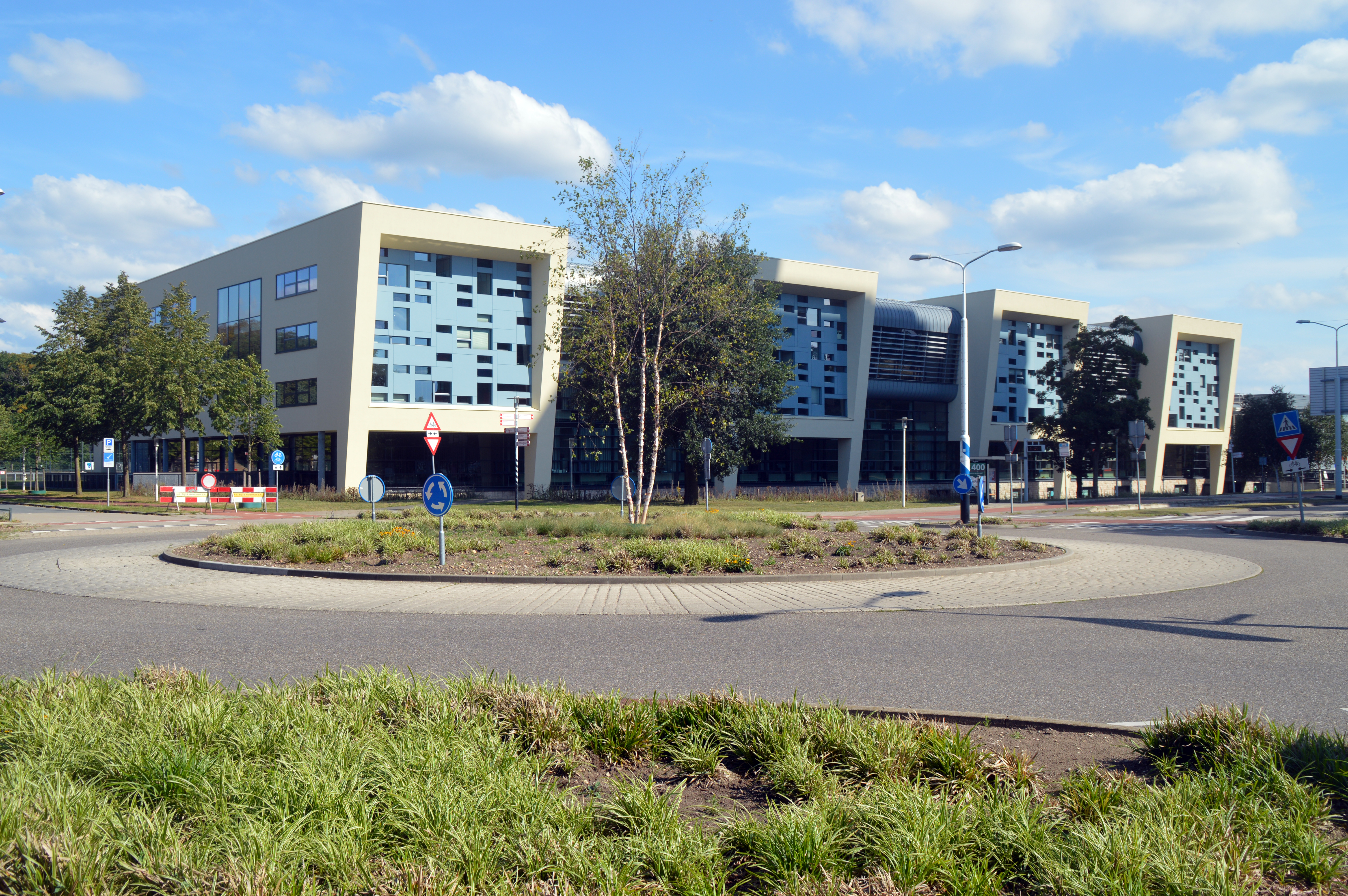 Gymnasion AGS Architekten & Planners Heyendaalseweg 141 Radboud University Nijmegen